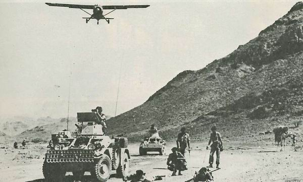 British troops clearing mines from the road, covered by two Ferret armoured cars and a Beaver AL.1 patrol aircraft in south of Yemen.